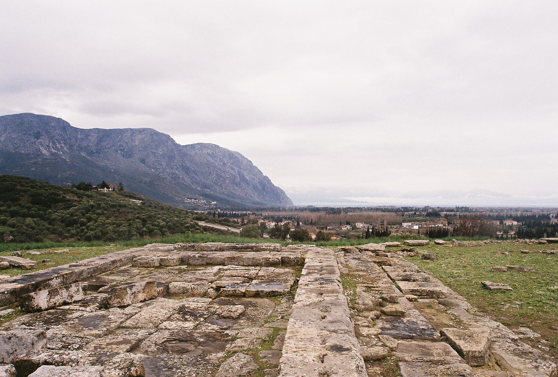 Ruins in Acropolis of Caydon.